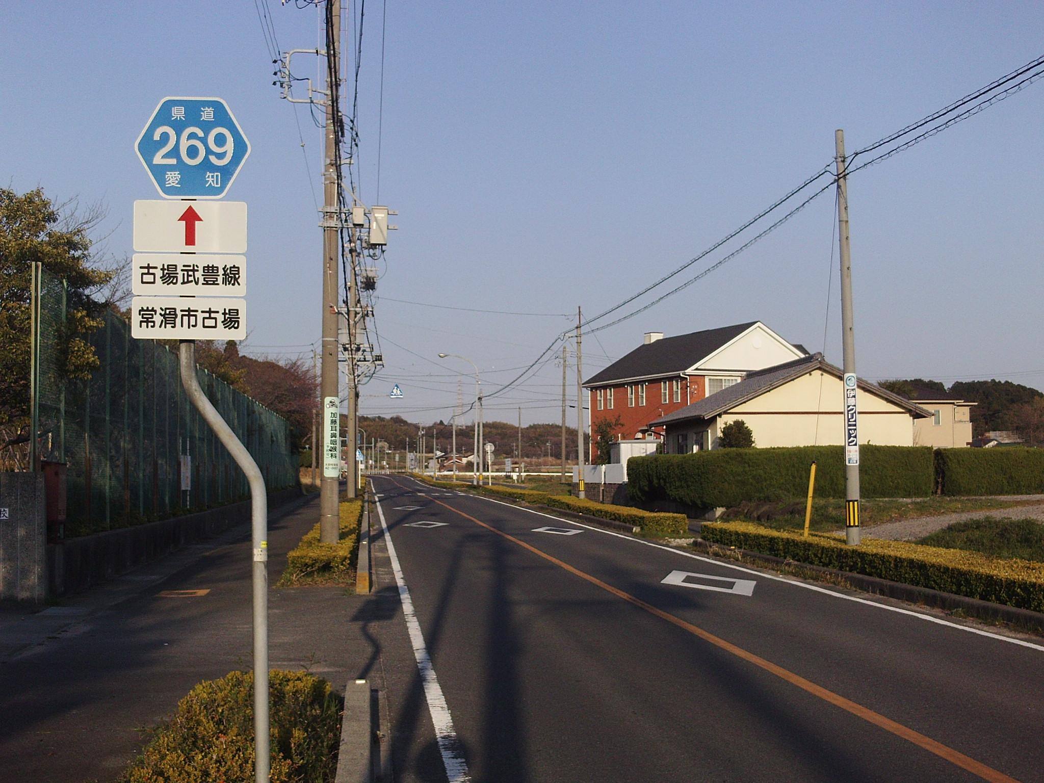 Starting Point of Aichi prefectural road No.269 in Koba, Tokoname, Aichi.